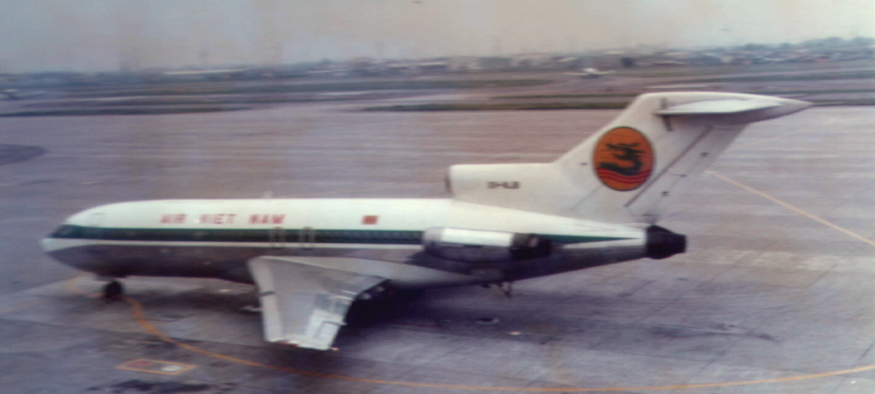 Taken at Osaka International Airport in 1971. Regular flight to/from Taipei.